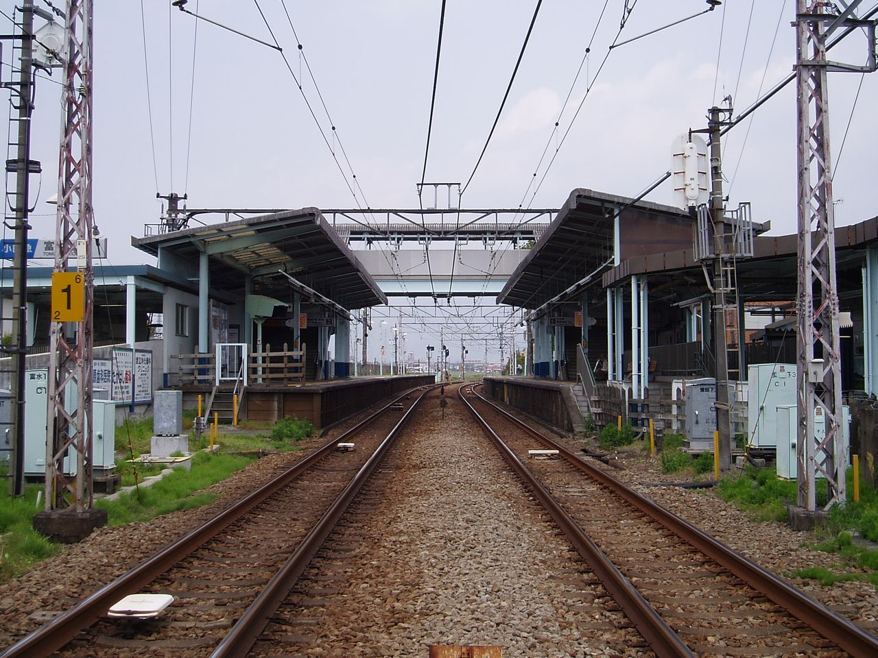 Inside of Tomizu Sta.